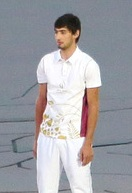 The opening ceremony of the First European games